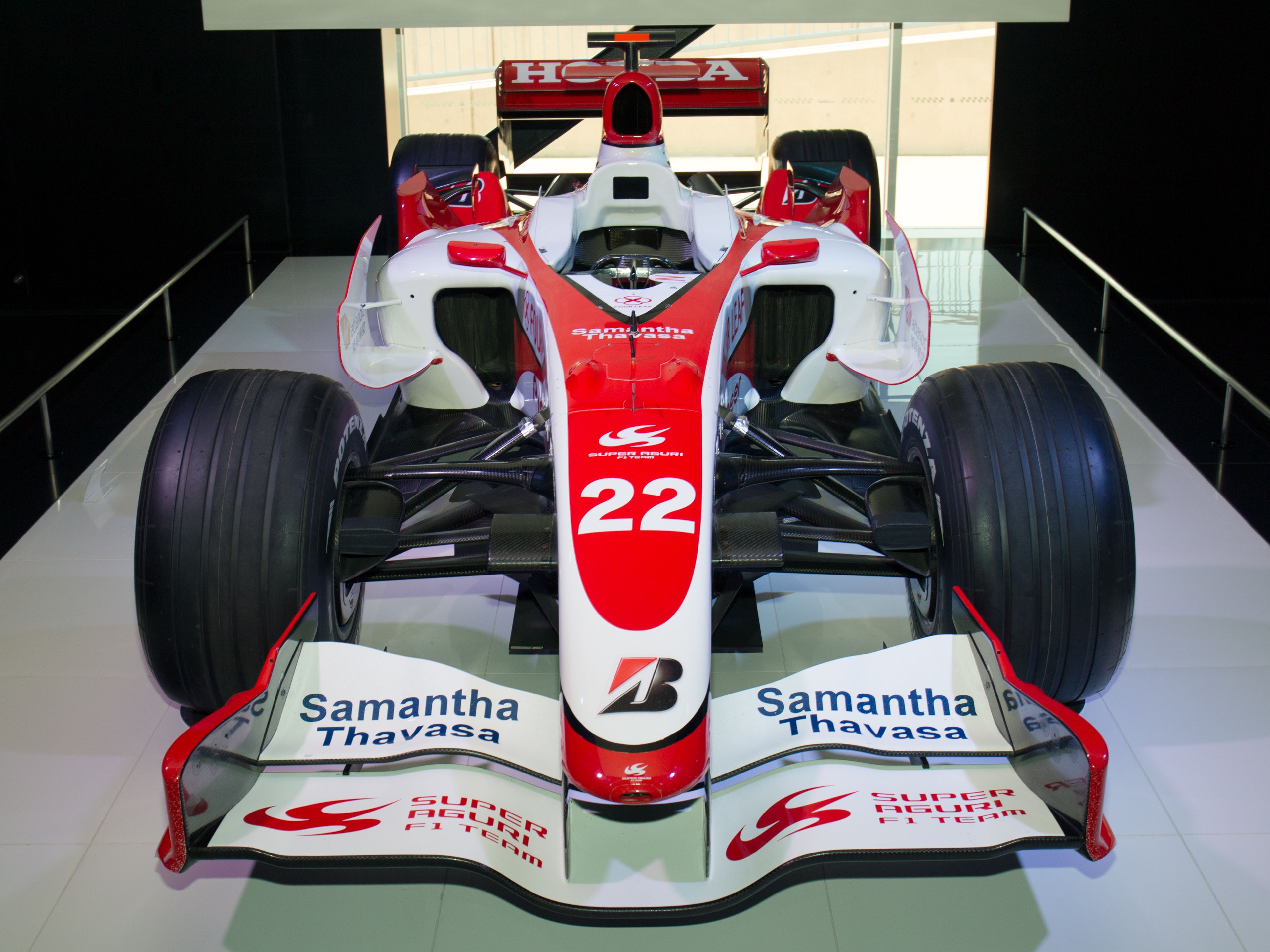 2007 Super Aguri SA07